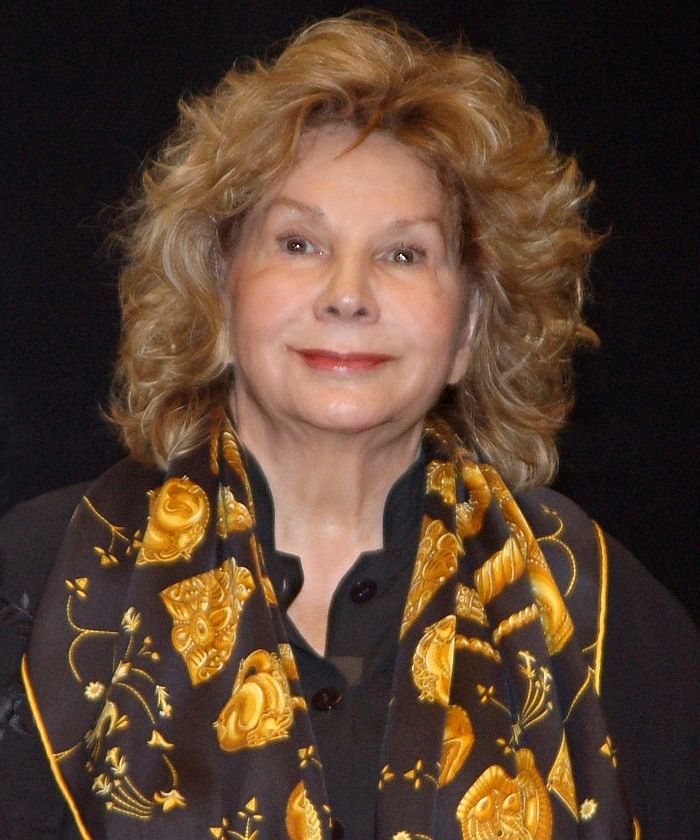 Jane Wagner attending the AARP's 2011 Life@50+ National Event and Expo in September 2011.